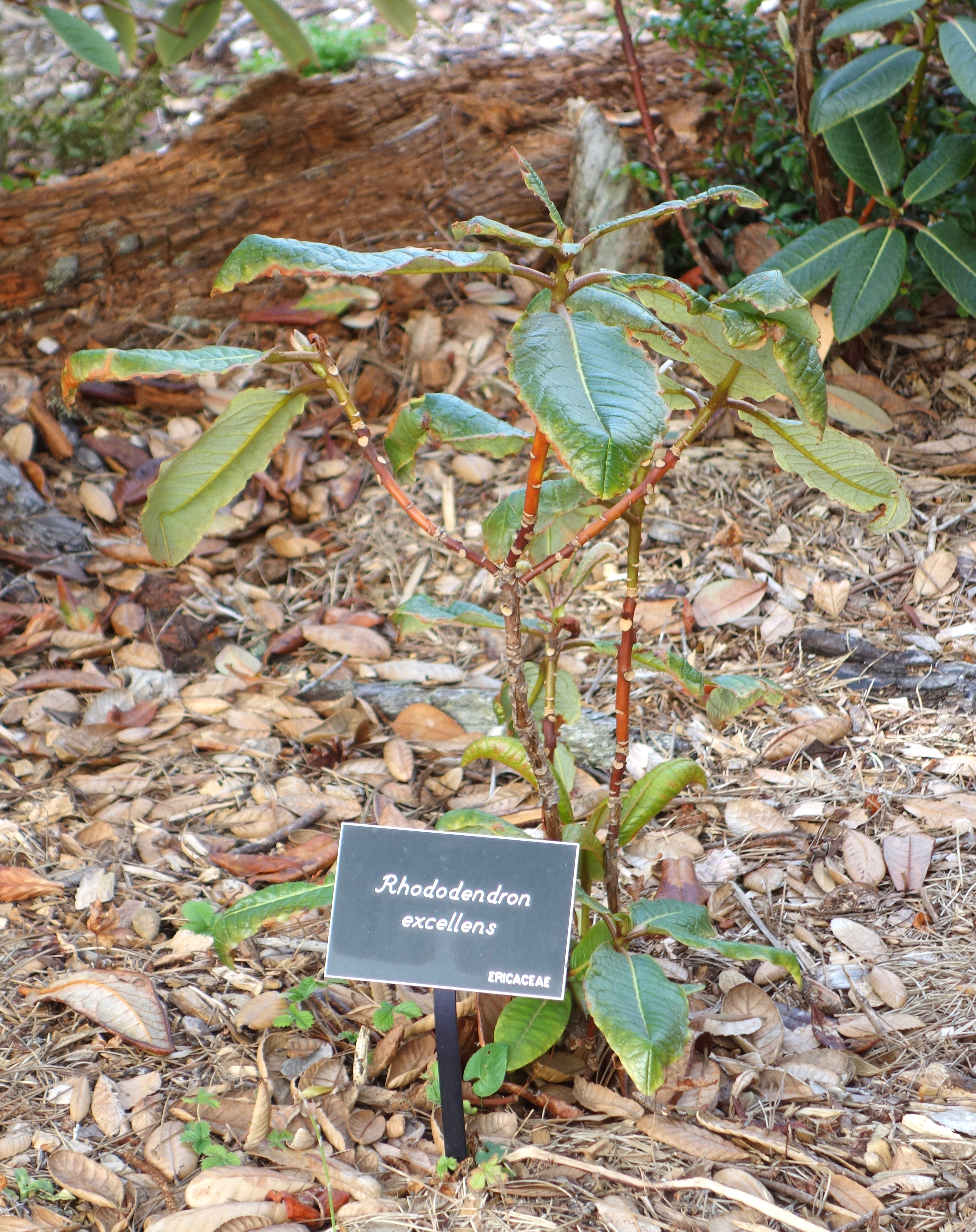 Botanical specimen in the Mendocino Coast Botanical Gardens, 18220 N Hwy 1, Fort Bragg, California, USA.